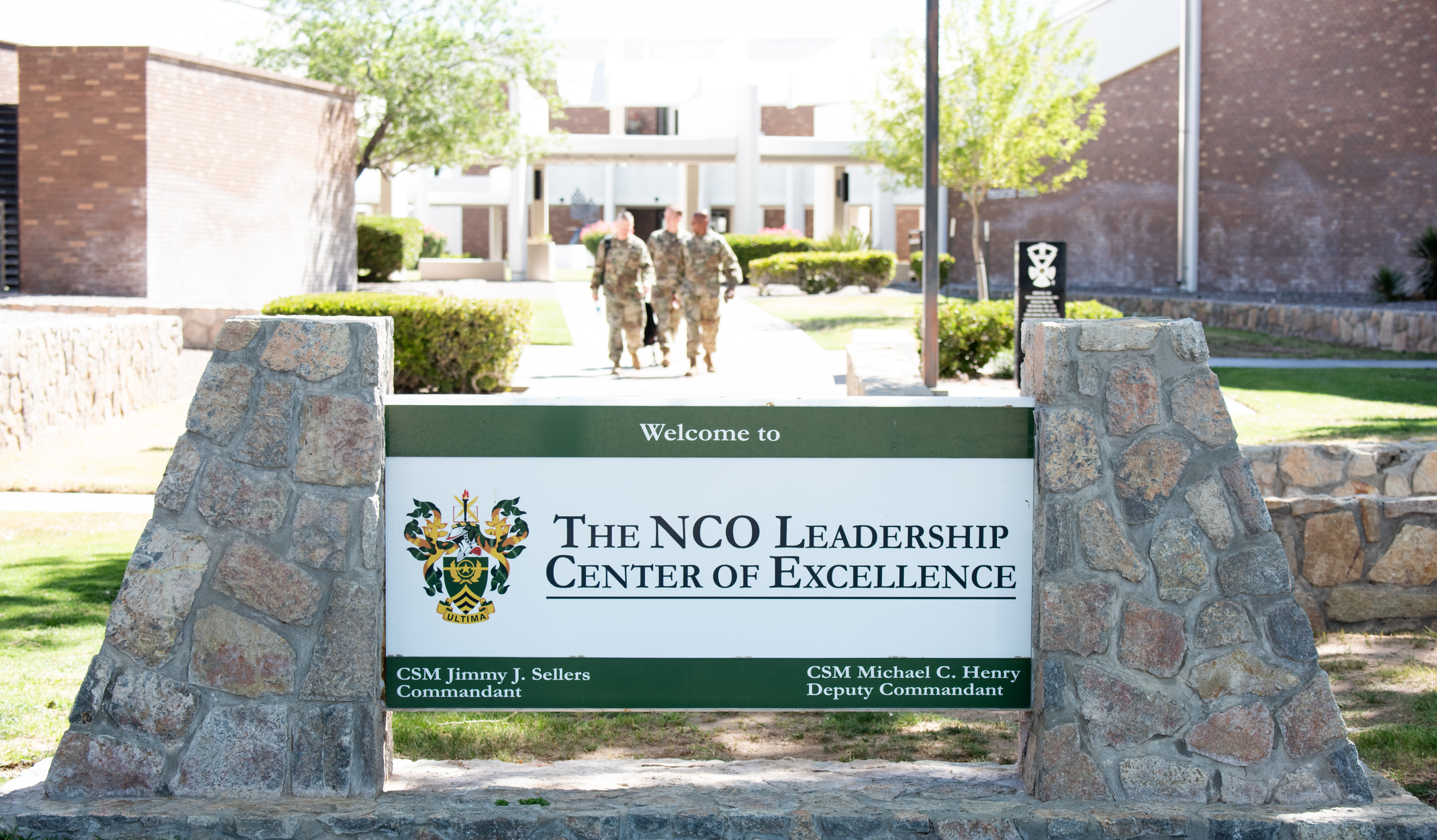 Army Command Sgt. Maj. John W. Troxell, Senior Enlisted Advisor to the Chairman of the Joint Chiefs of Staff, departs after speaking to Sergeants Major Course class 69 students at the NCO Leadership Center of Excellence and U.S. Army Sergeants Major Academy during a trip to Fort Bliss, Texas, May 28, 2019. (DoD Photo by U.S. Army Sgt. James K. McCann)